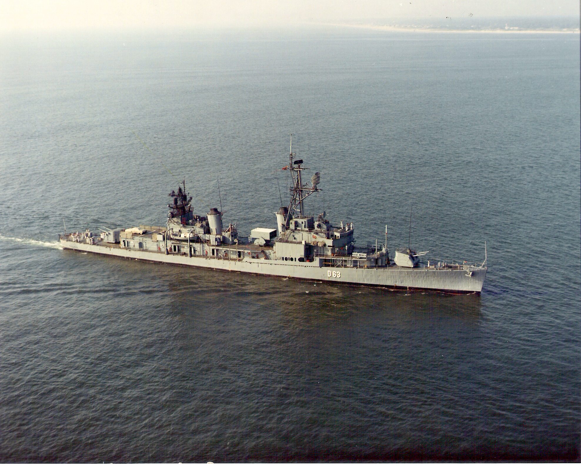 The Spanish destroyer Méndez Núñez (D63) underway in Chesapeake Bay, in 1973. The former USS O'Hare (DD-889) was transferred to Spain on 31 October 1973.